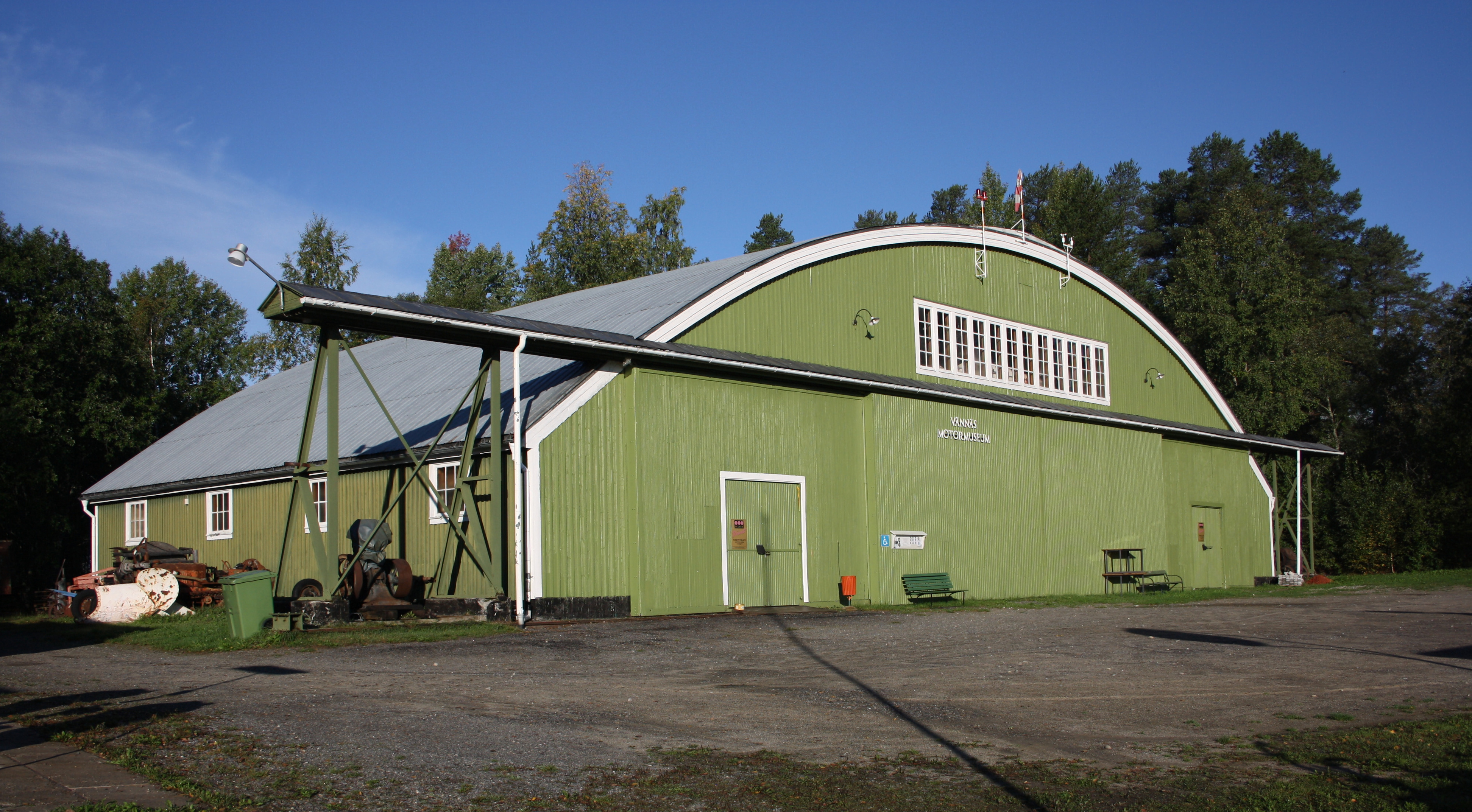 The Hangar in Vännäs läger with Vännäs motor museum